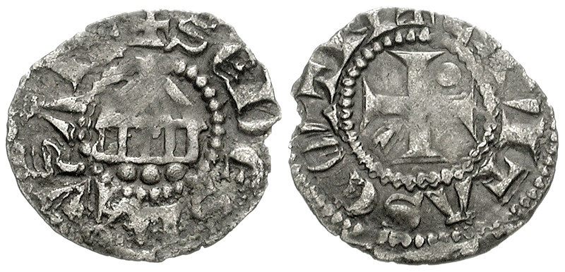 Switzerland, Waadt (Vaud). Évêché de Lausanne. Anonymous issues, 12th-14th centuries. AR Obol (13mm, 0.32 g, 12h). Struck circa 1273-1354. + SEDES LΛVSΛNE, five-columned church tower; three pellets below + CIVITΛS EQ’STRI, cross pattée; pellet in first quarter; arrow in third quarter. Dolivo 24 var. (rev. legend); HMZ, Schweiz 1-487. VF, toned, flan a little ragged.